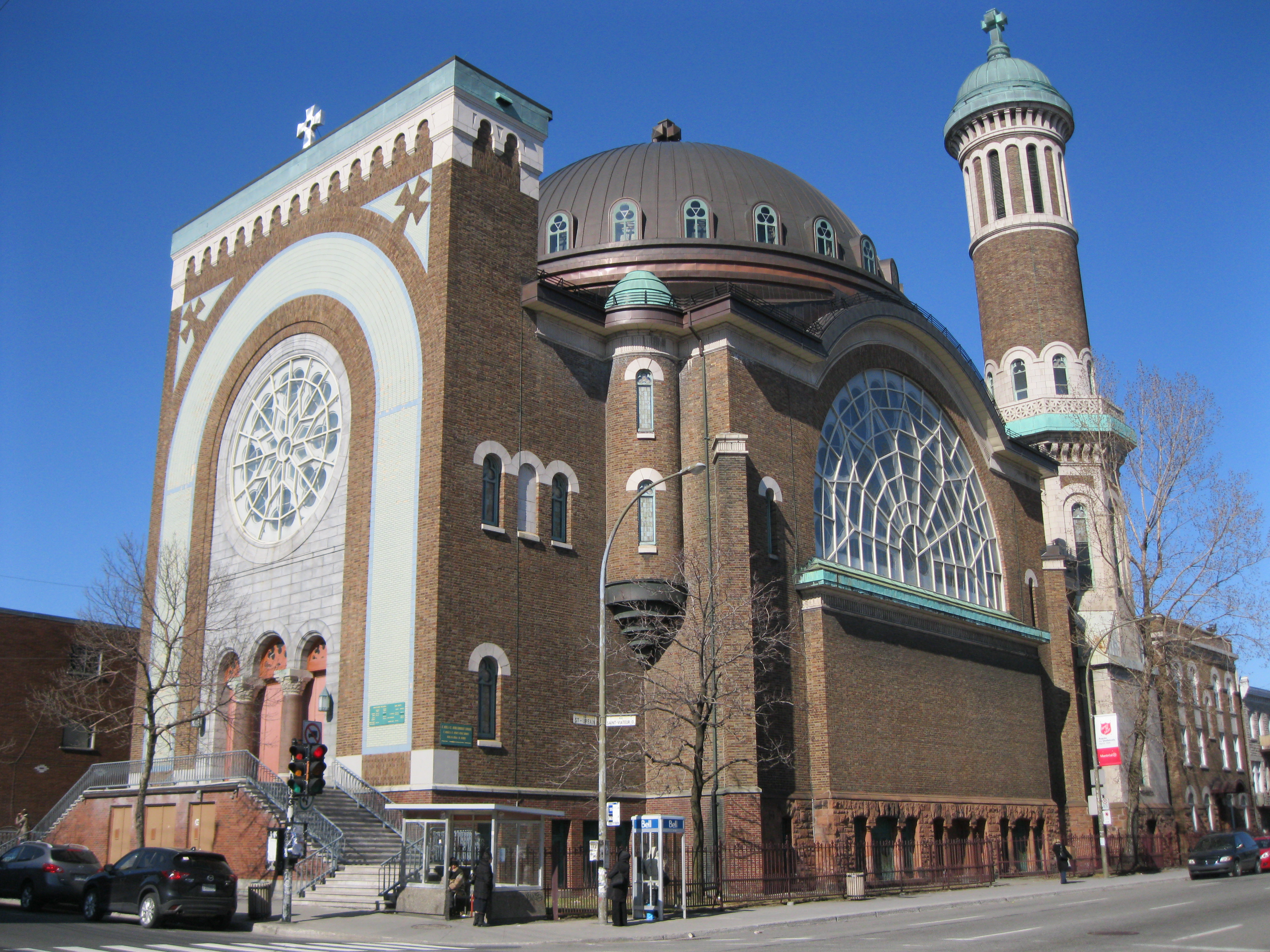 Church of St. Michael and St. Anthony, 5580 Saint-Urbain Street / 105 Saint-Viateur West, Montréal, Quebec, Canada